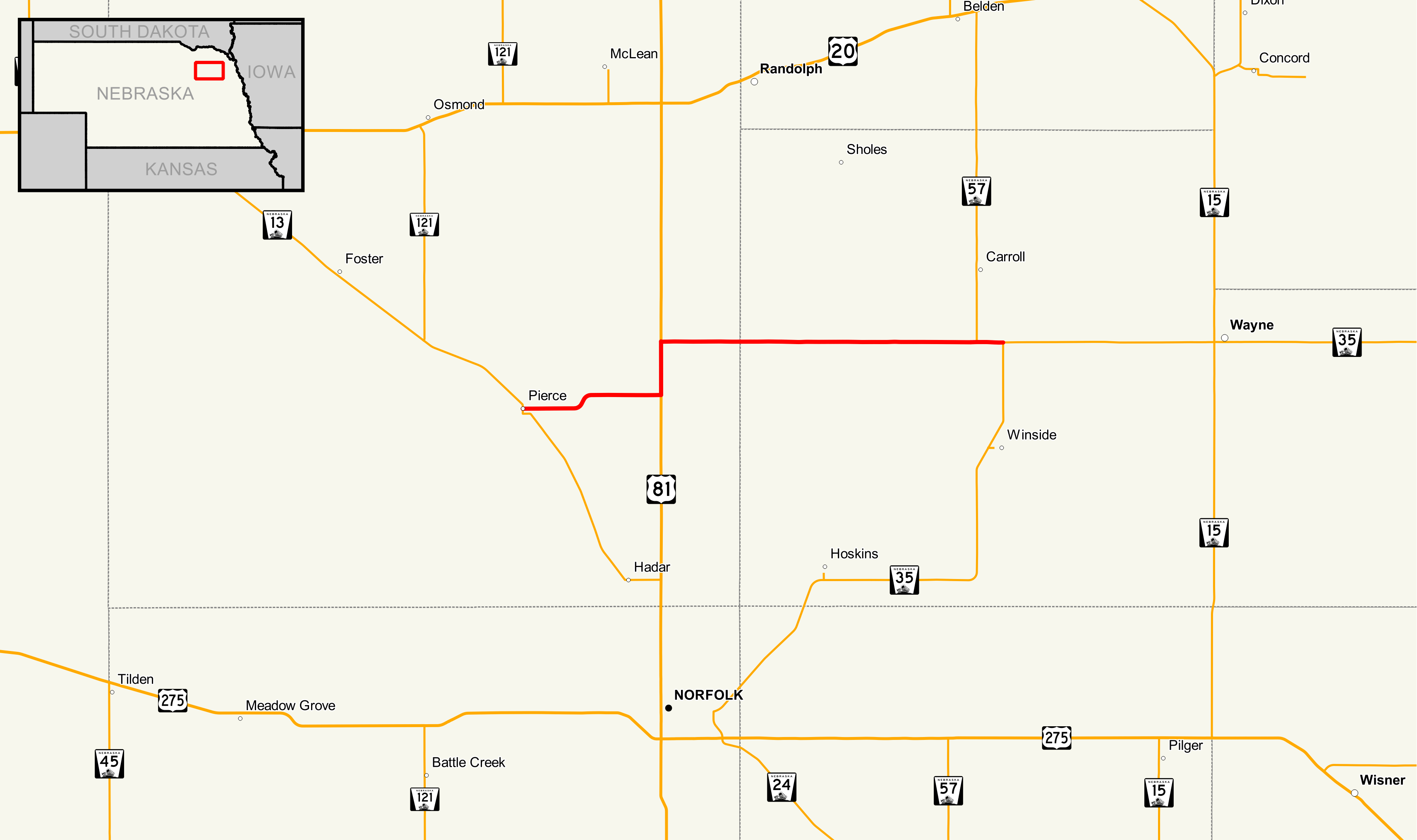 Map of Nebraska Highway 98 Data Sources: Nebraska Highways - - Dec 2016 Nebraska County Boundaries - - Dec 2016 Nebraska City Boundaries - - Dec 2016 This PNG graphic was created with QGIS